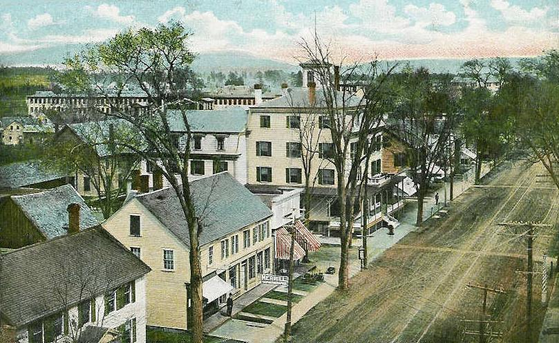 Looking down Main Street from the Opera House, Norway, Maine. At center is Beal's Hotel.